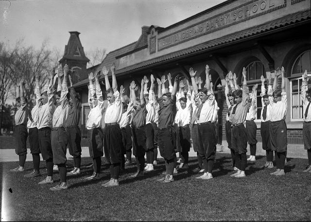 "Students at the Ellwanger and Barry School No. 24, on Meigs Street, demonstrate their physical fitness exercises. Their class is standing in orderly rows outside the school. The "Spanish" roof tiles, decorative brickwork, square turrets, and arched windows of the one-story school can be plainly seen." "This building is the second School No. 24. Built in 1913, it closed as a school in 1979, and was turned into condos in 1980. Printed in Rochester Herald, May 11, 1921."